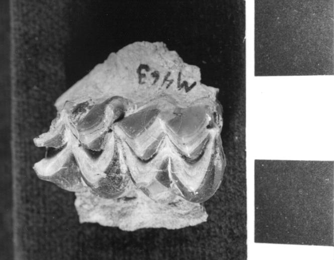 Phenacocoelus parvus teeth, University of California Museum of Paleontology.